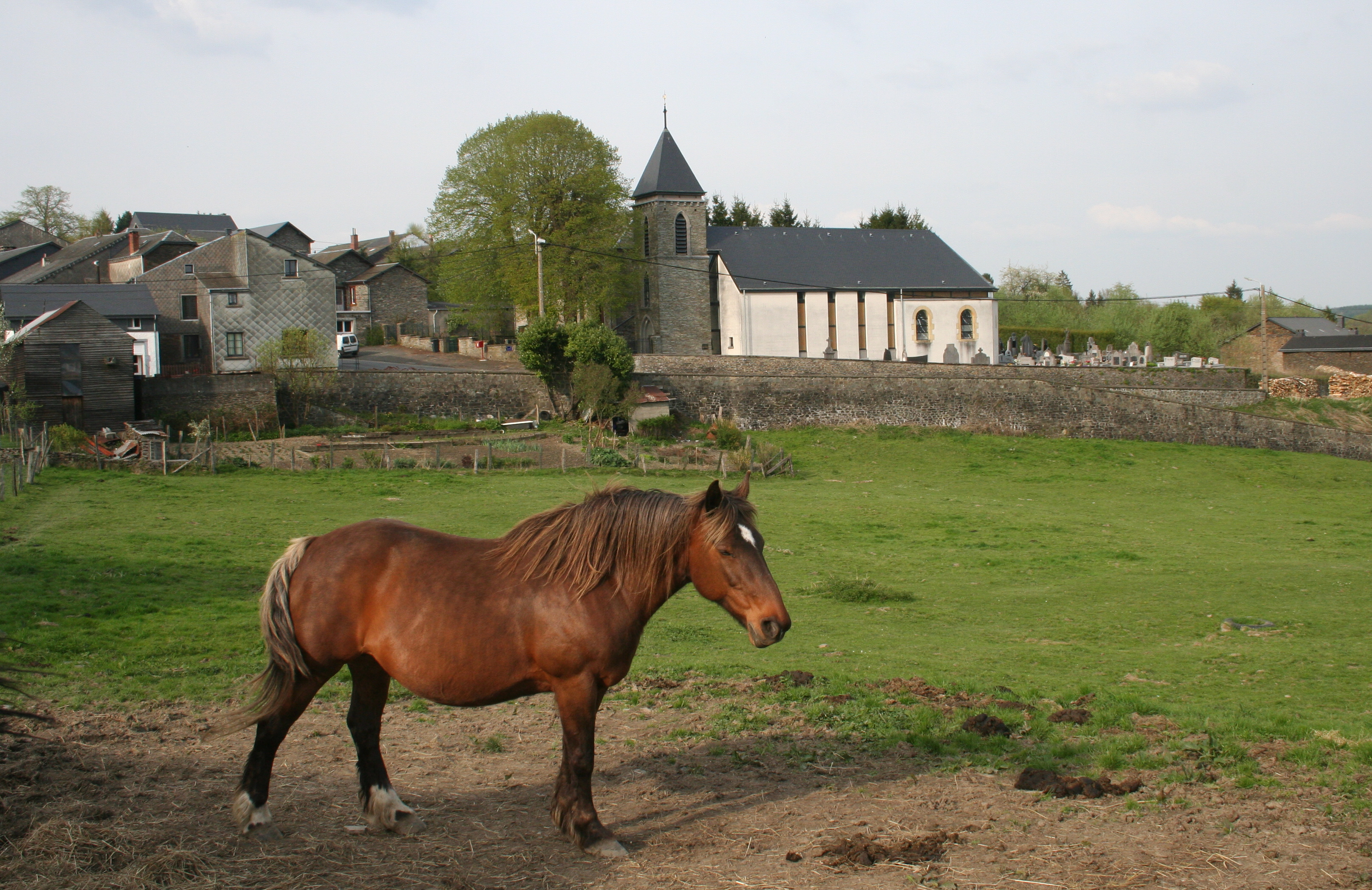 Gros-Fays (Belgium), the St. Peter's church neighbourhood.